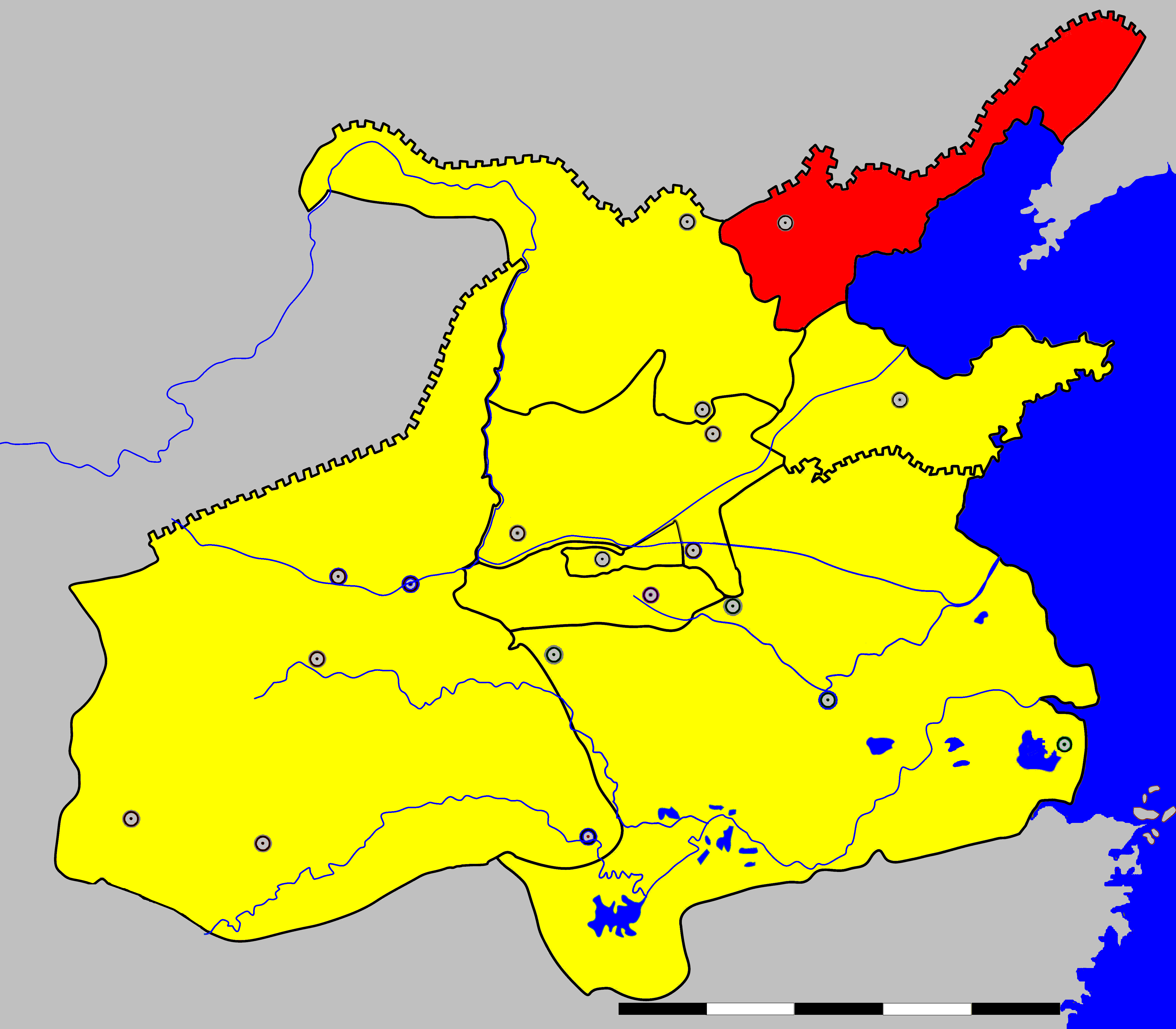 map of the ancient Chinese kingdom of 燕 Yān